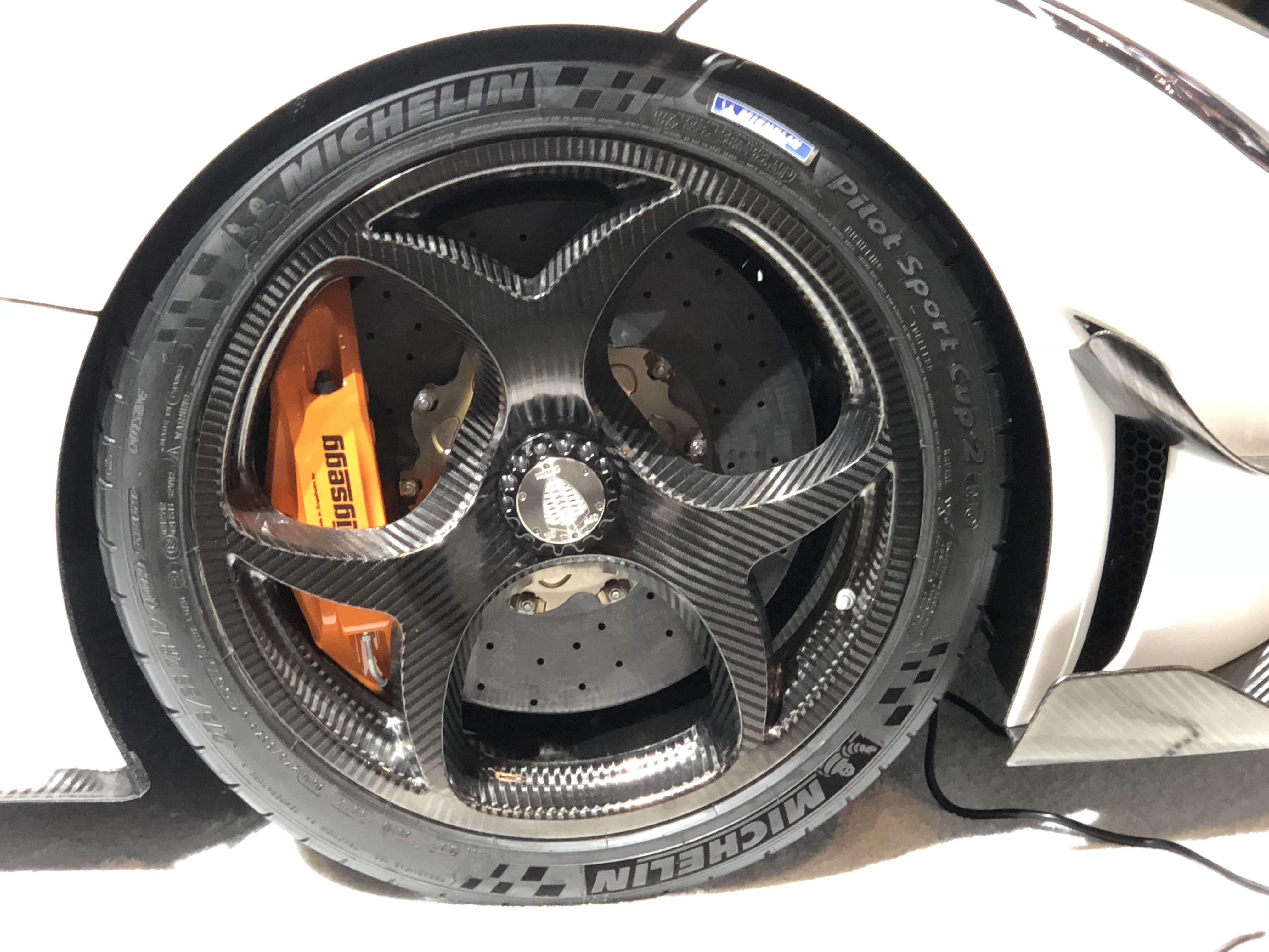 Wheel of the Koenigsegg Regera